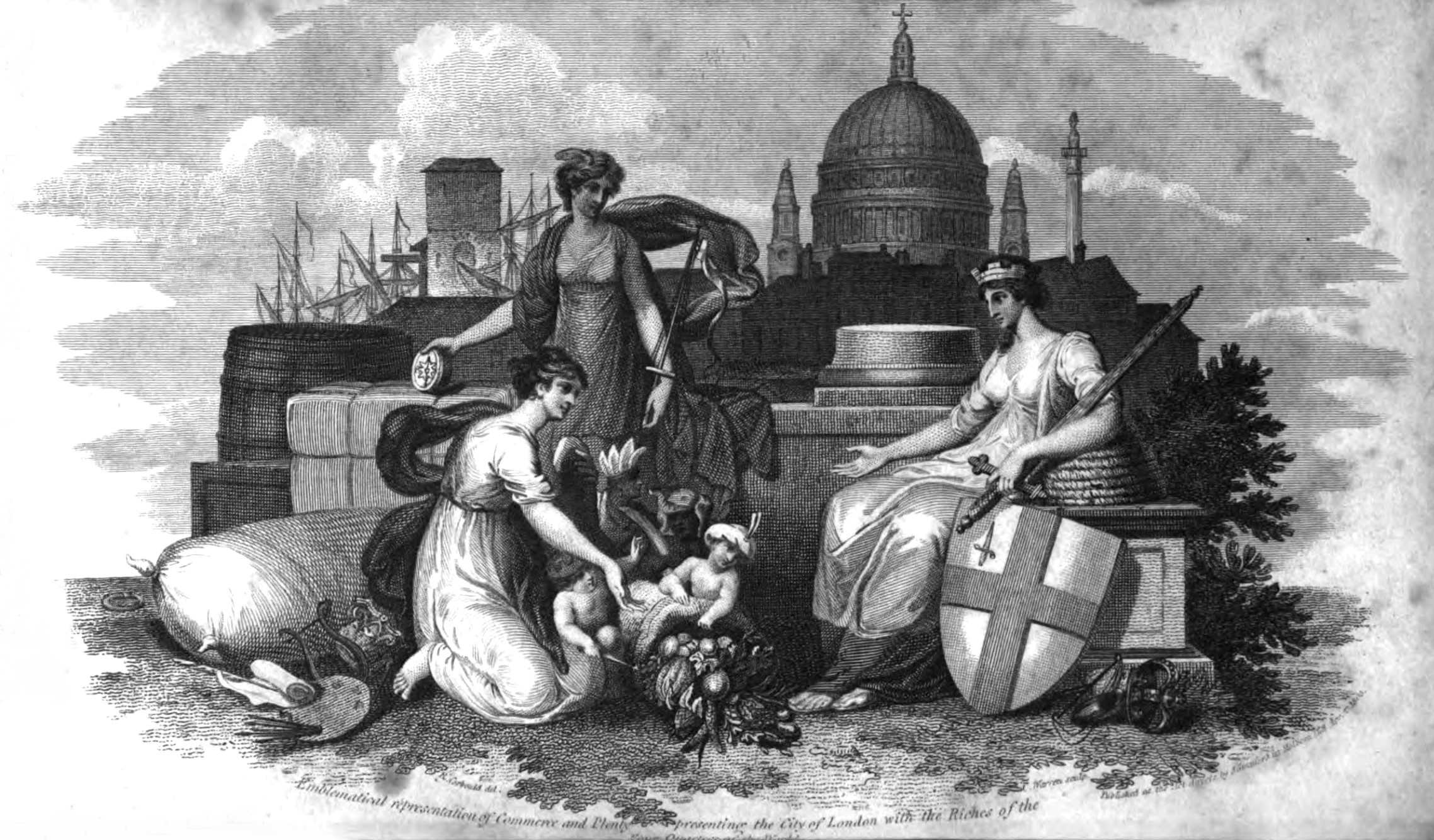 Commerce and Plenty from London; Being an Accurate History and Description of the British Metropolis and its Neighbourhood, to Thirty Miles Extent, from an Actual Perambulation by David Hughson, 1805.